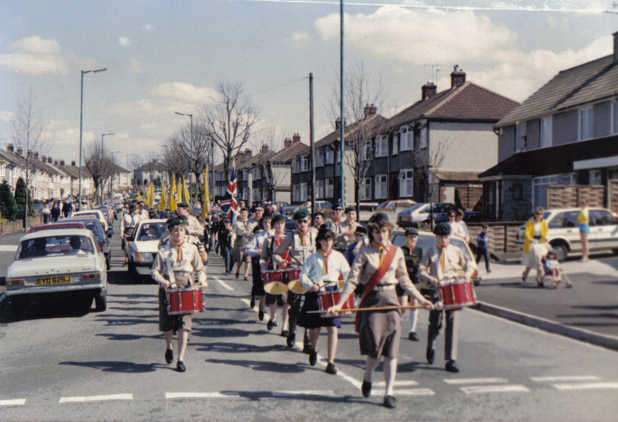 Original caption: The cubs and scouts make their way along Gordon Avenue in Whitehall, Bristol on the St George's day parade. The date was April 27th 1986.